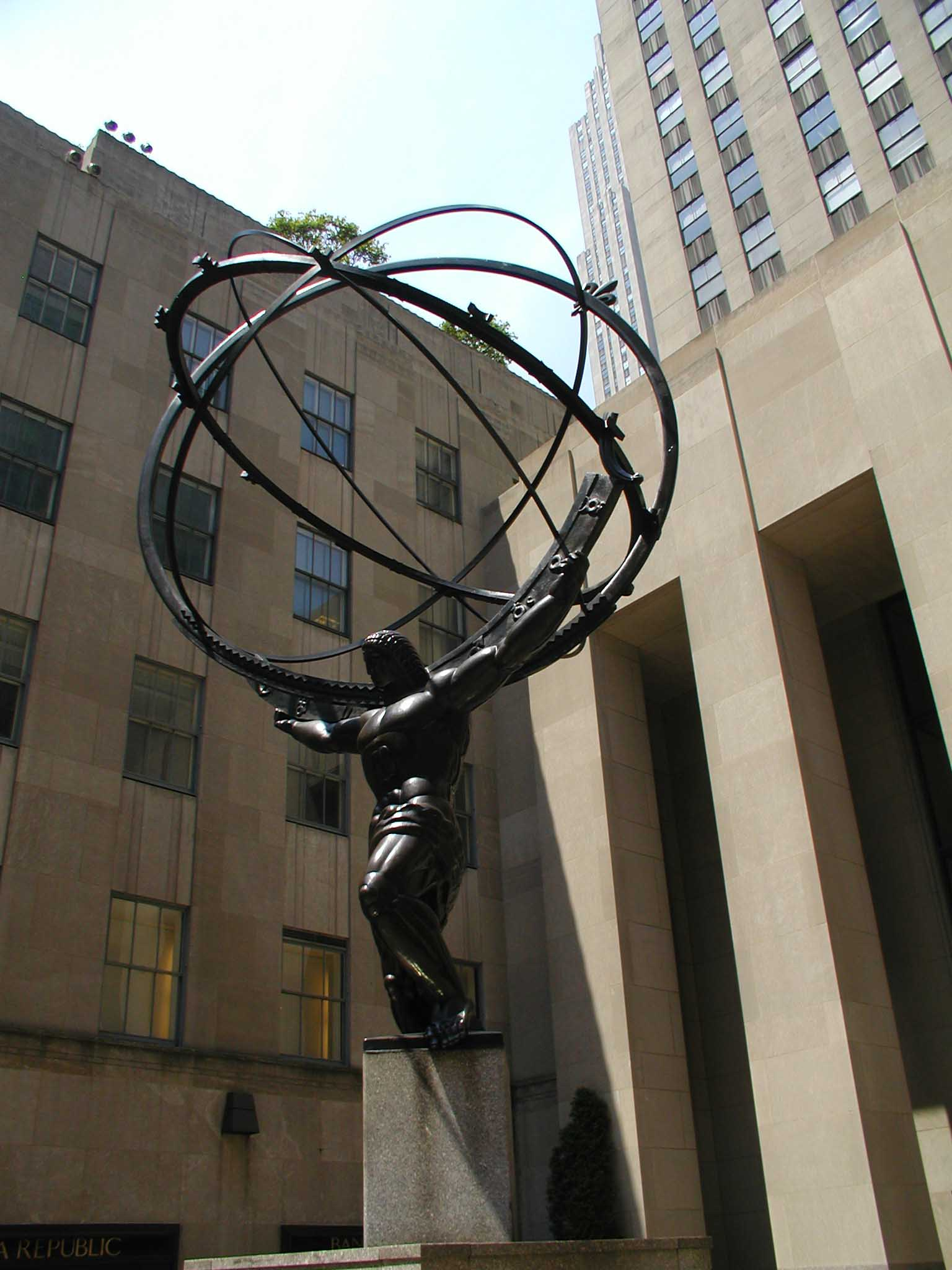 Atlas statue at Rockefeller Center in New York City.